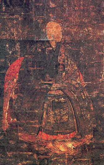 Zen monch